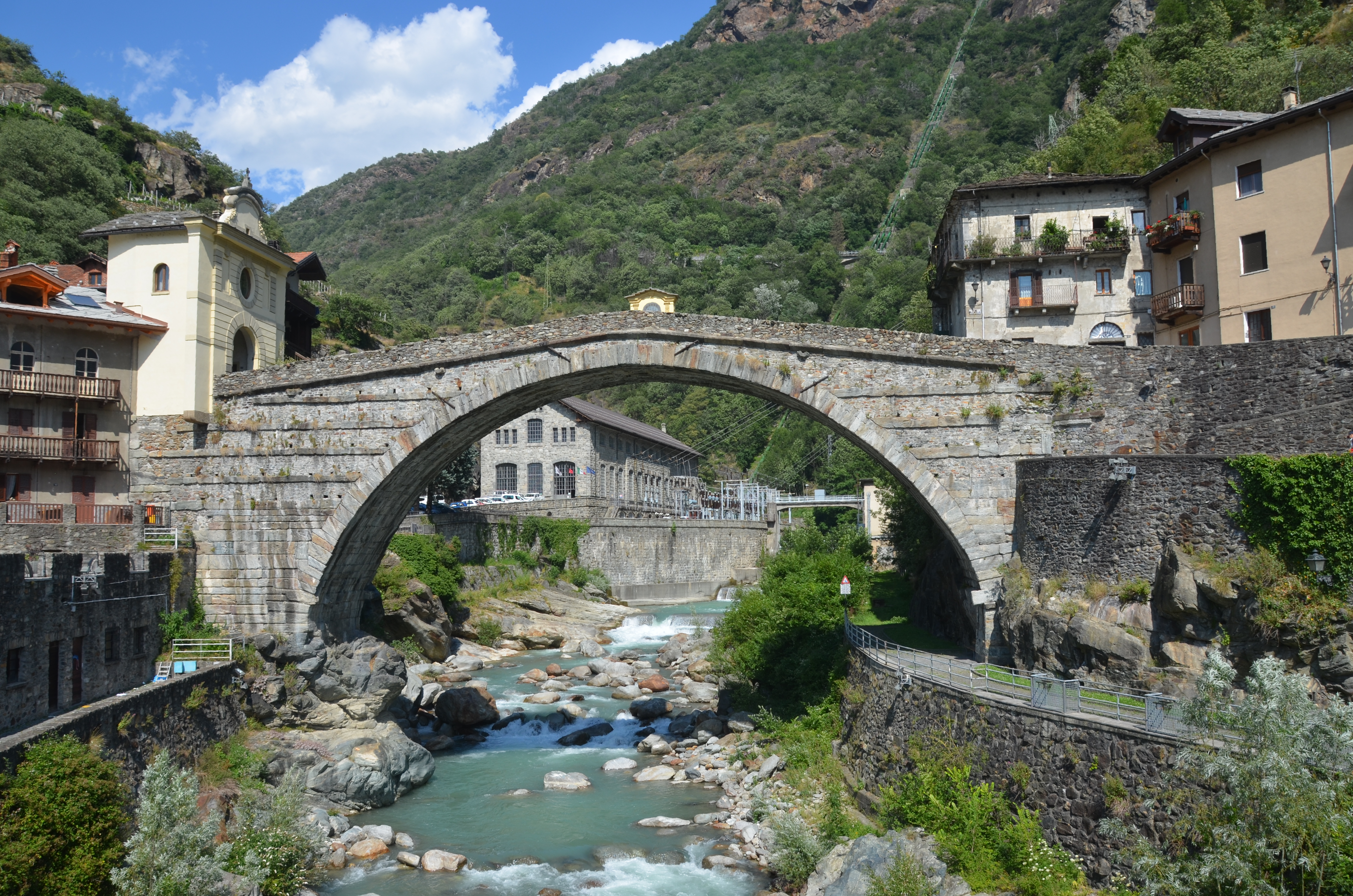 The span is 31.4 metres (103 ft) according to recent research, but frequently stated to be 35.64 m or 36.65 m.